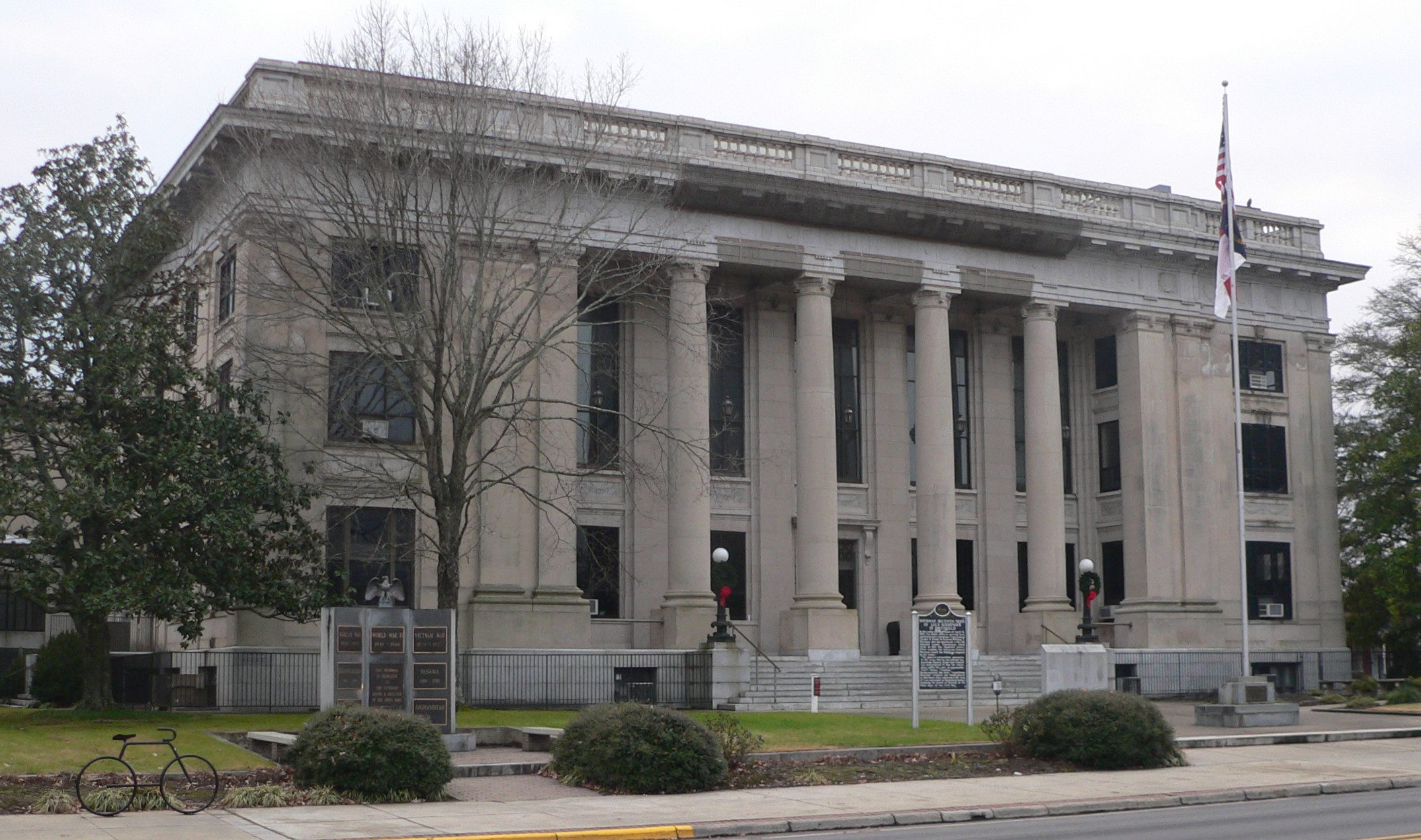 Johnston County courthouse, located at southeast corner of 2nd and Market Streets in Smithfield, North Carolina; seen from the northeast, across Market.